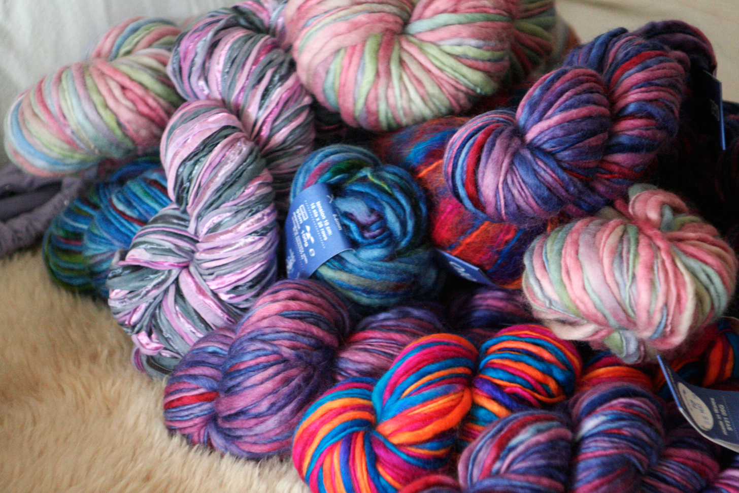 Marl knitting yarn, different yarn numbers